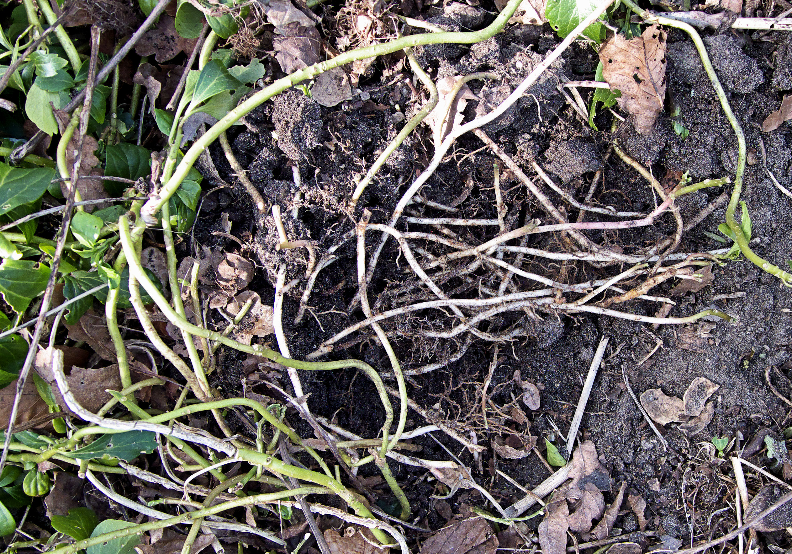 Pachysandra_terminalis_rhizomes